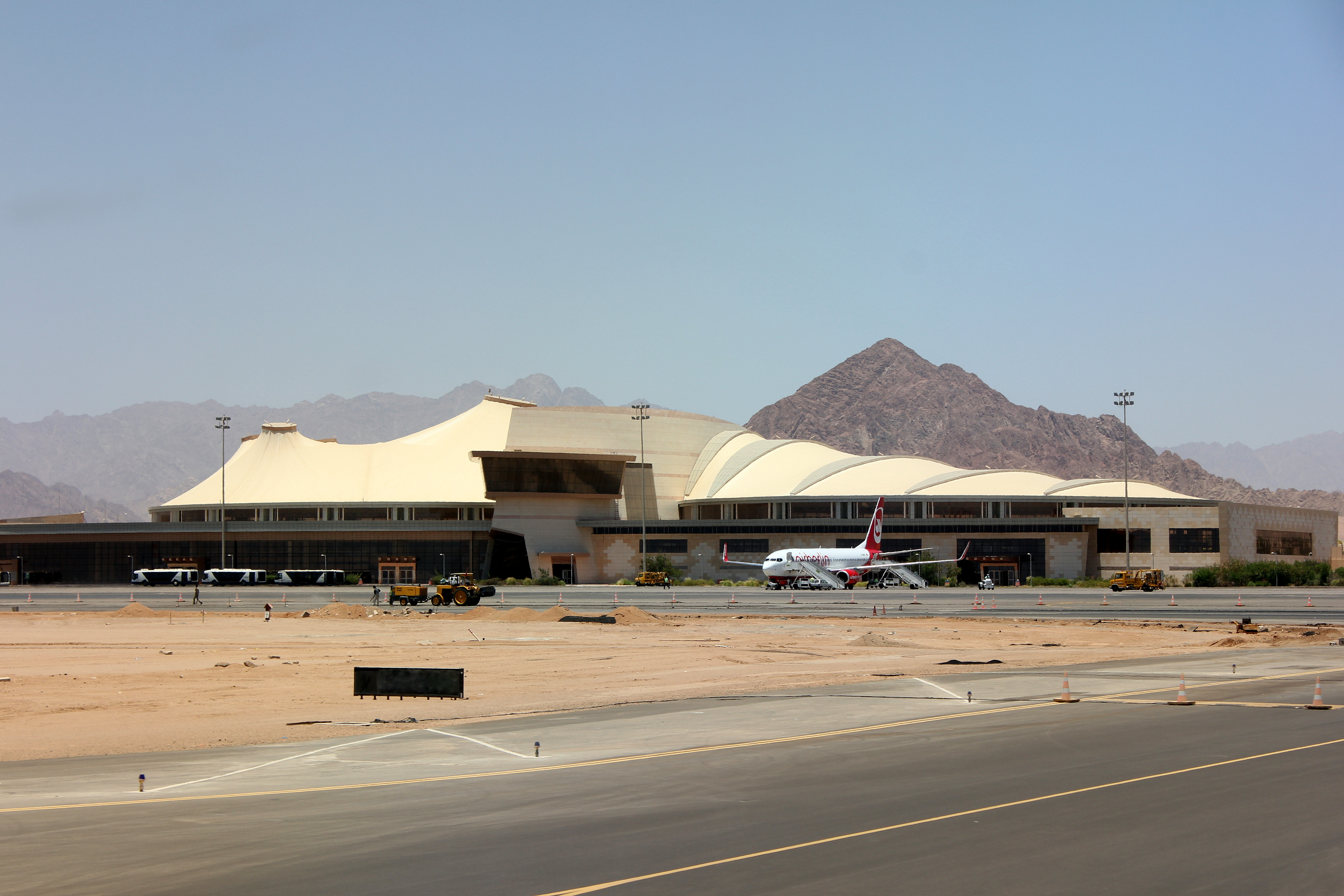 Terminal 2 of Sharm el-Sheikh International Airport (HESH)